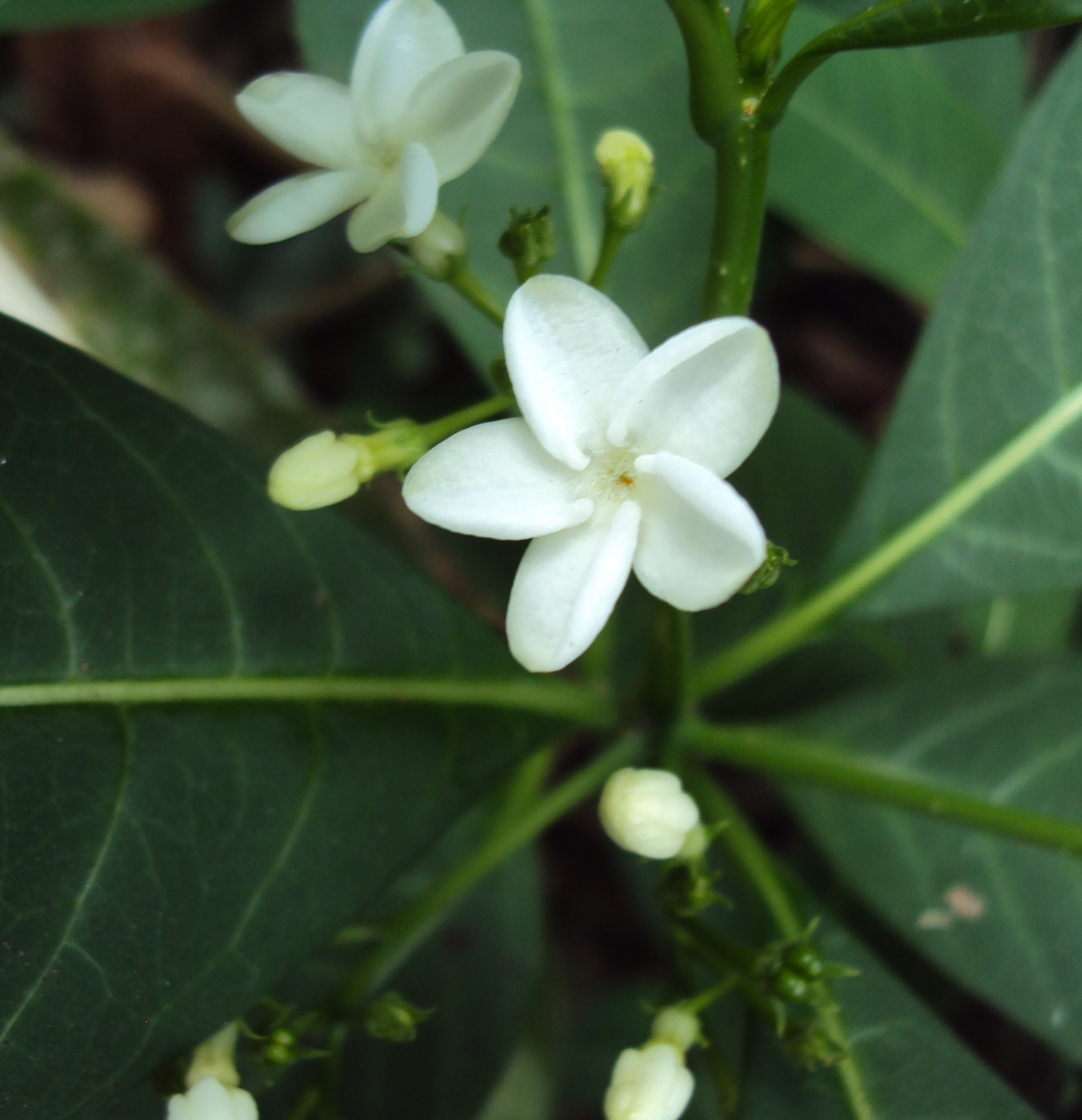 Rauvolfia verticillata